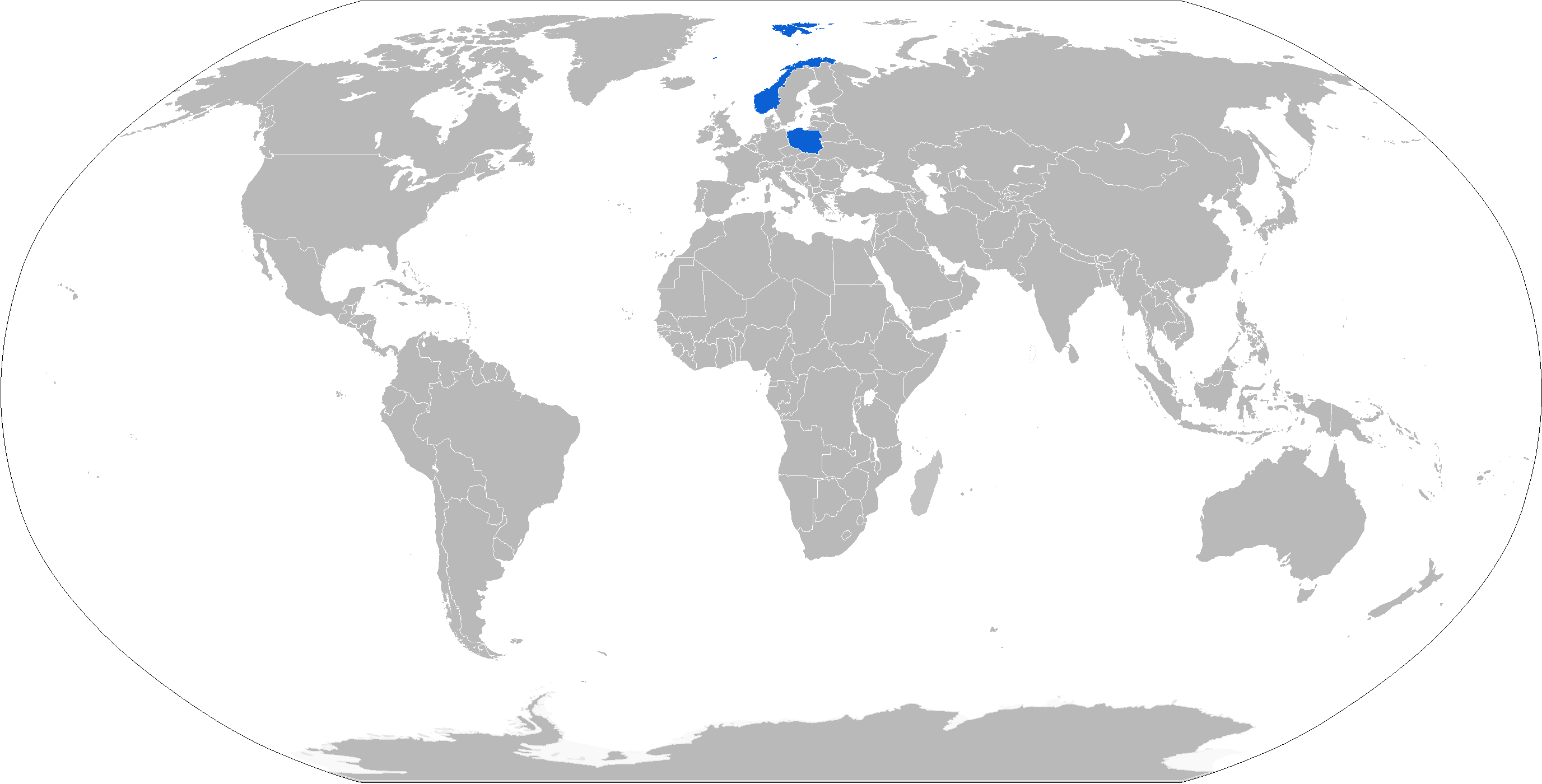 Map with Naval Strike operators in blue